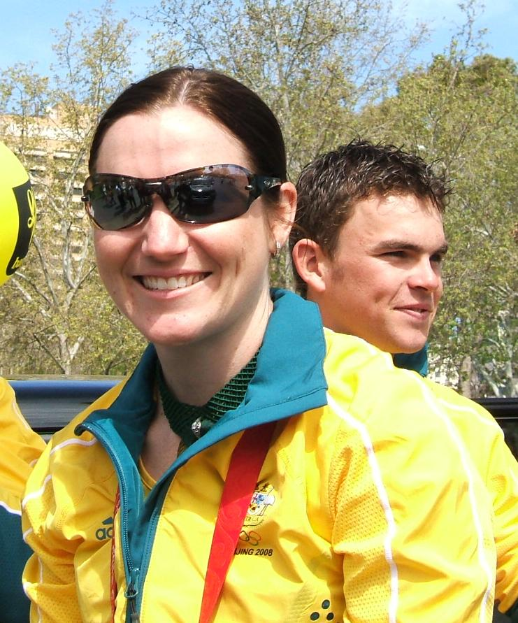 Anna Meares at the 2008 Olympic homecoming parade in Adelaide